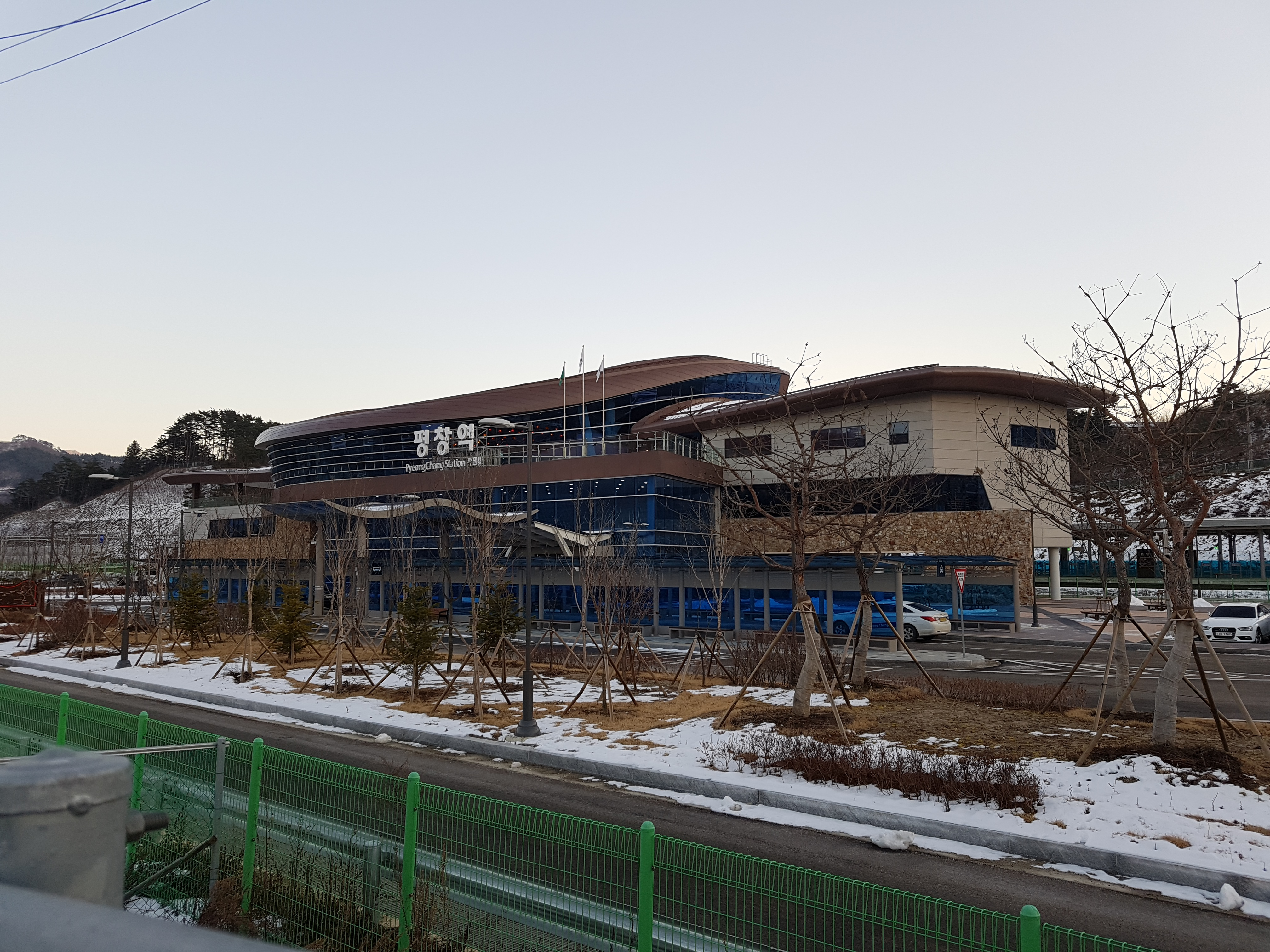 A scenery of Pyeongchang Station Building